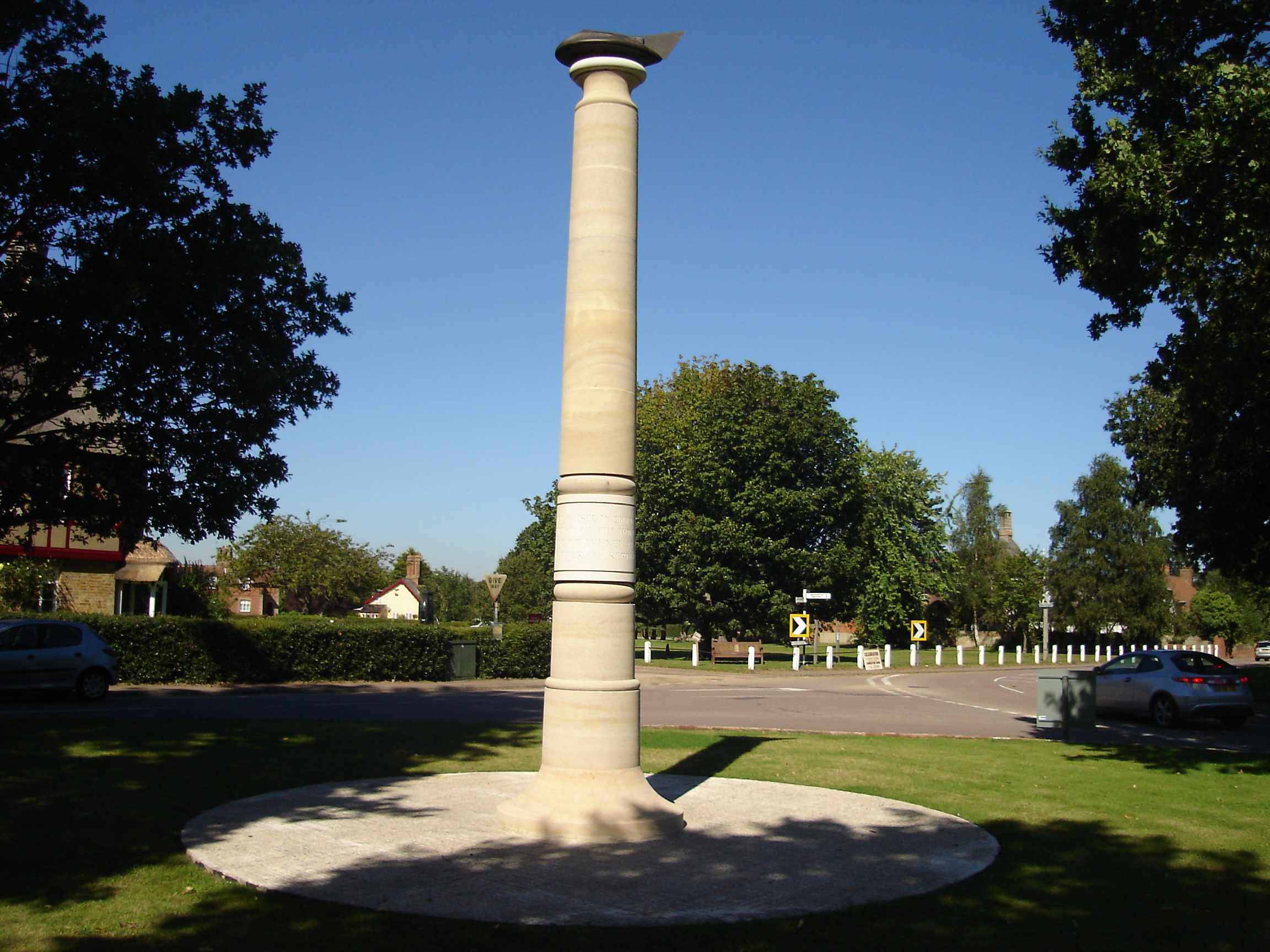 Memorial of hovercraft in the village Somerleyton